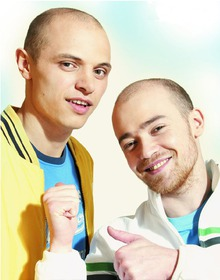 Vladimir Panchenko and Ilya Podstrelov are the founders of the music band "Faktor-2", as well as authors and performers of all hits of this band.